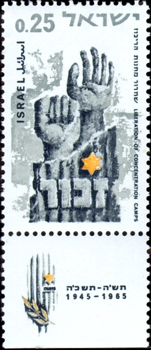 Liberation of concentration camps stamp